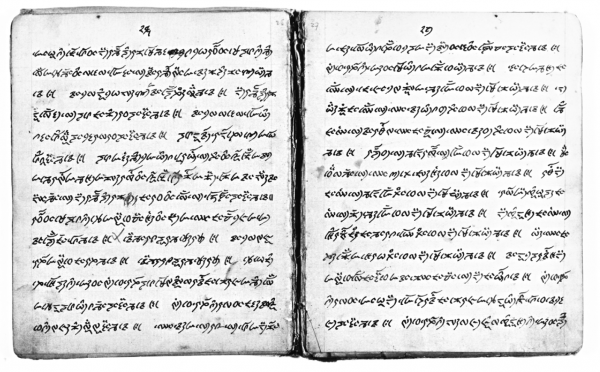 Lepcha script from The Van Manen Collection